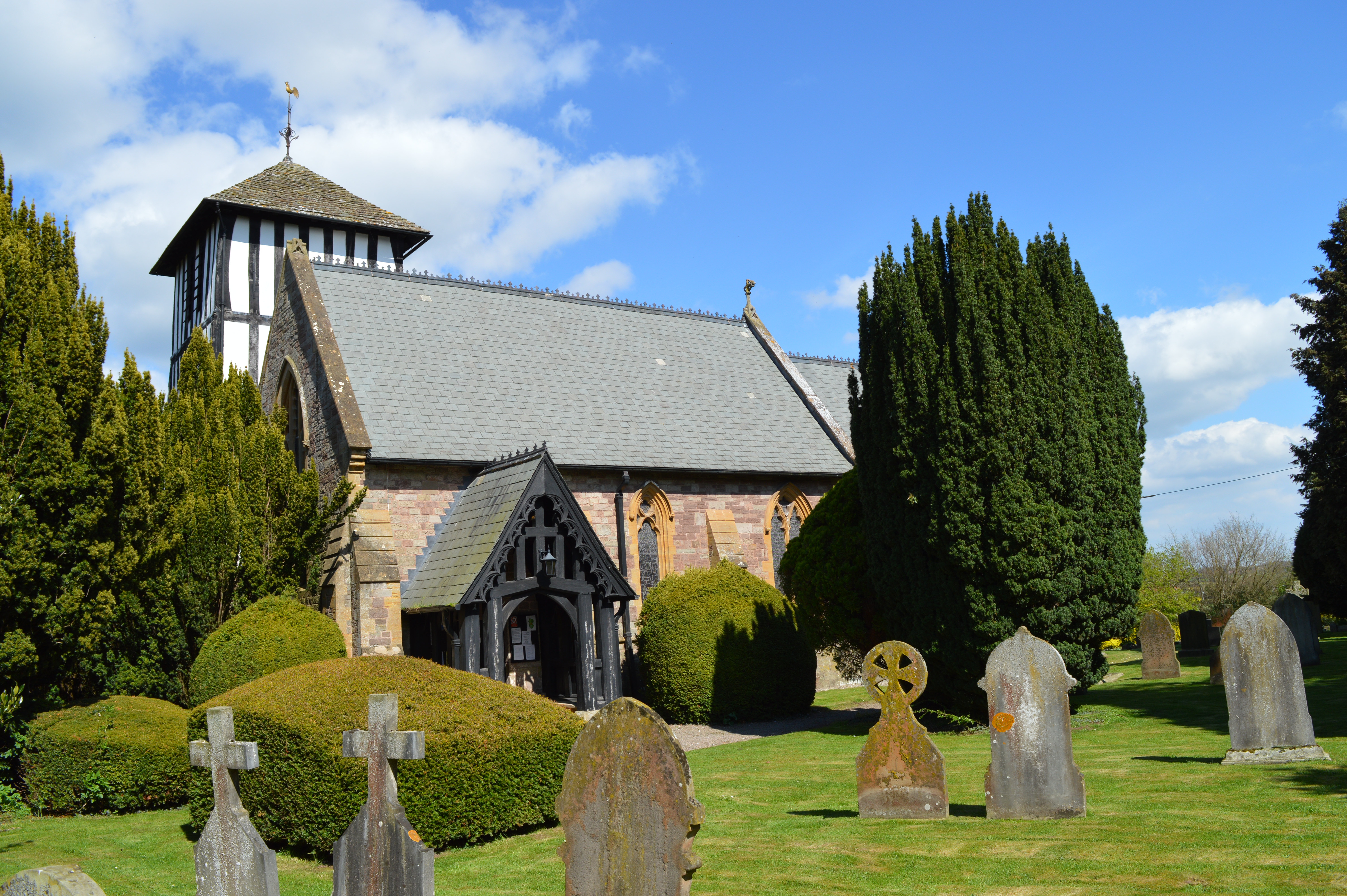 St Mary Magdalene, Stretton Sugwas. Rebuilt on a new site in 1877-80 by local architect William Chick. The timbered tower was re-erected on a new base. Kept locked, unfortunately.